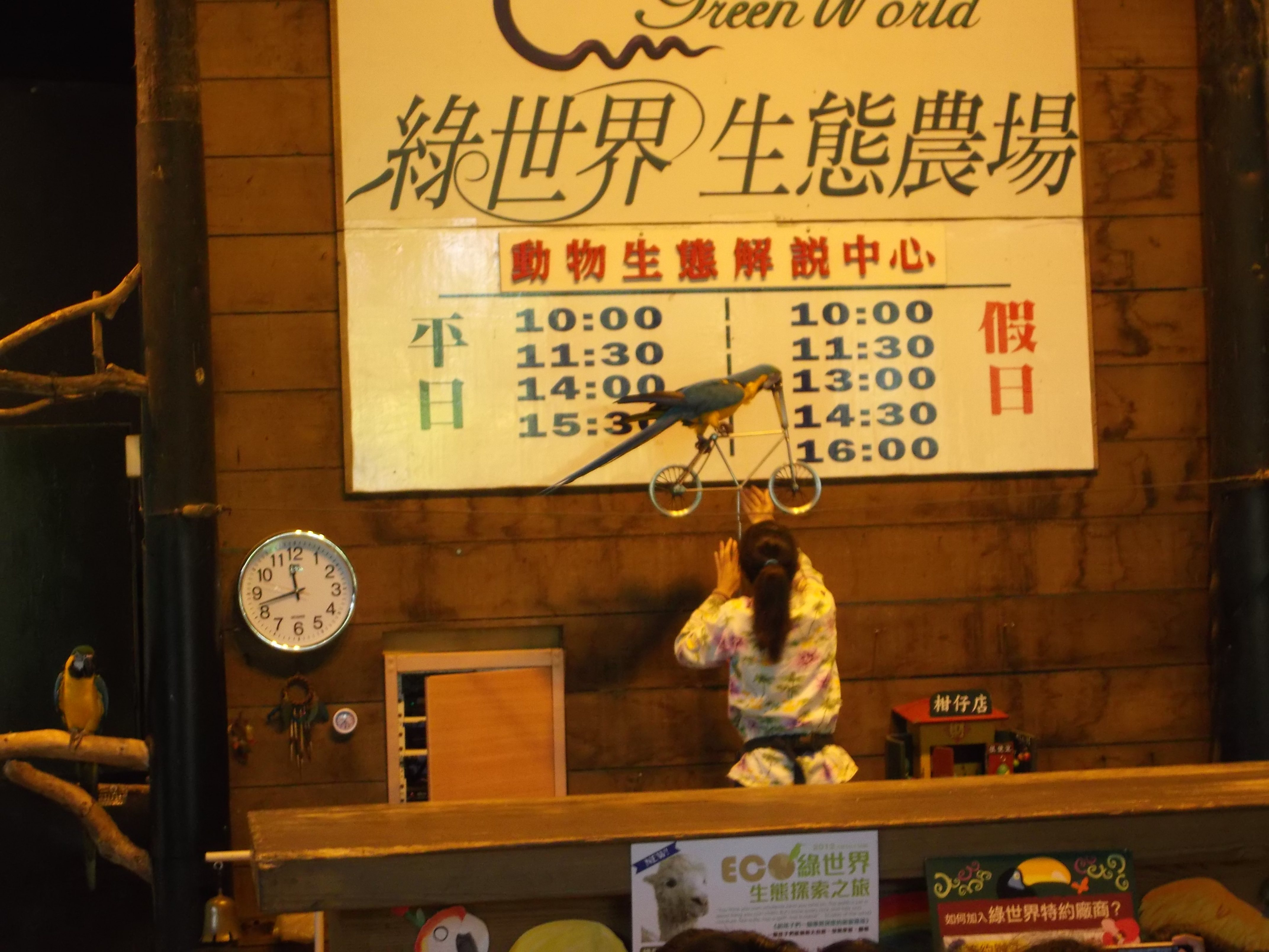 A macaw rided a bike in Animal Stars Show of Green World Ecological Farm.